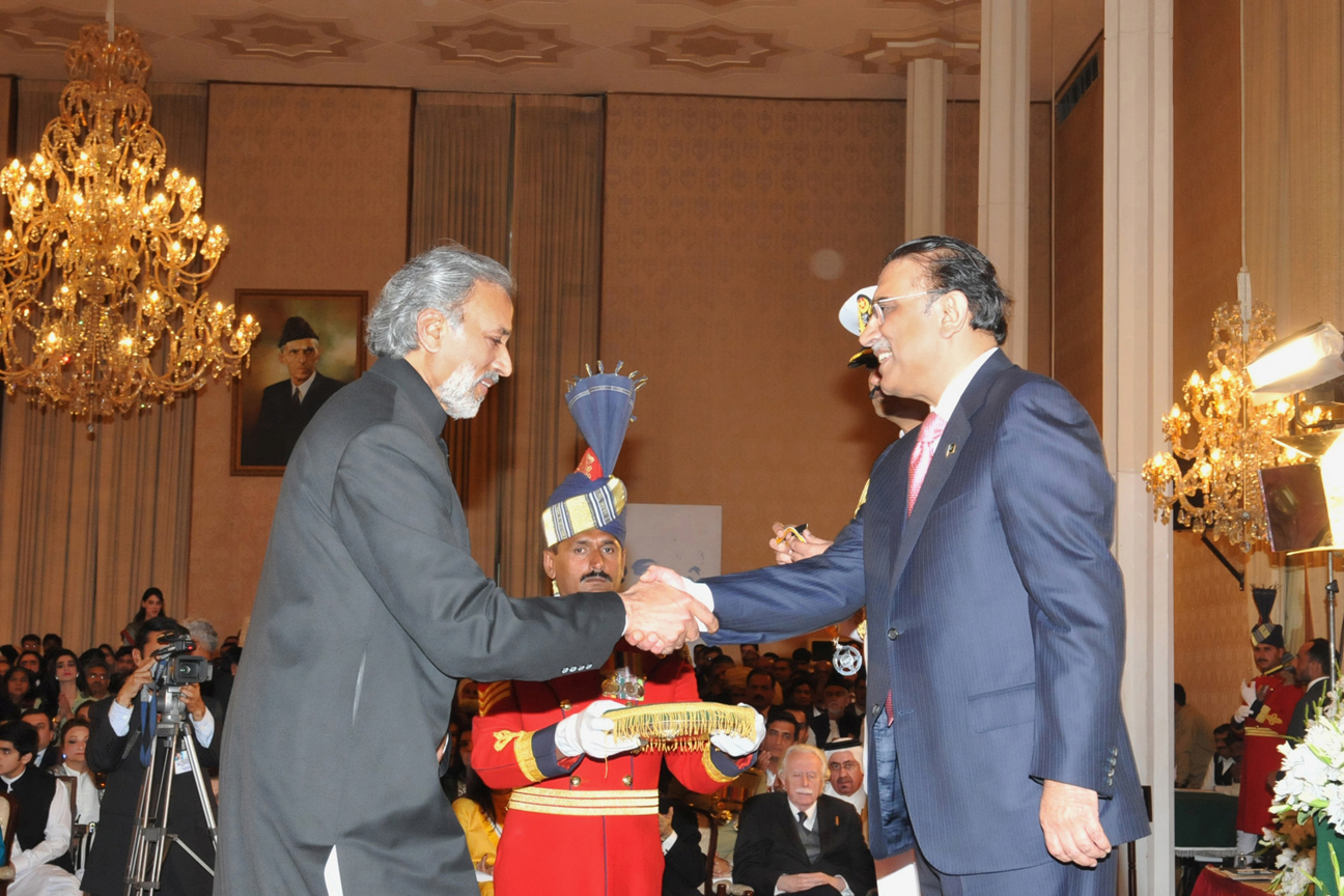 Hakeem Rizwan Hafeez Malik receiving Sitara-i-Imtiaz from the President of Pakistan, Asif Ali Zardari